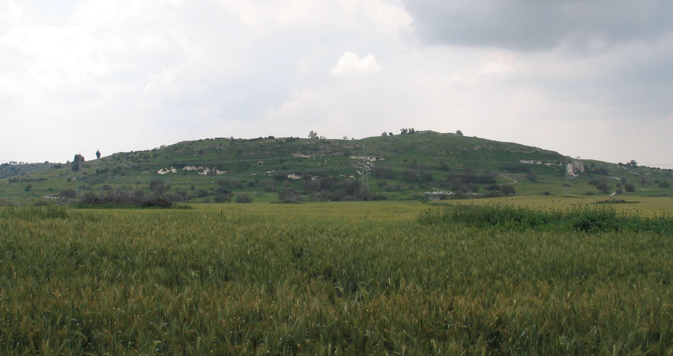 Tel Tsafit, Israel.